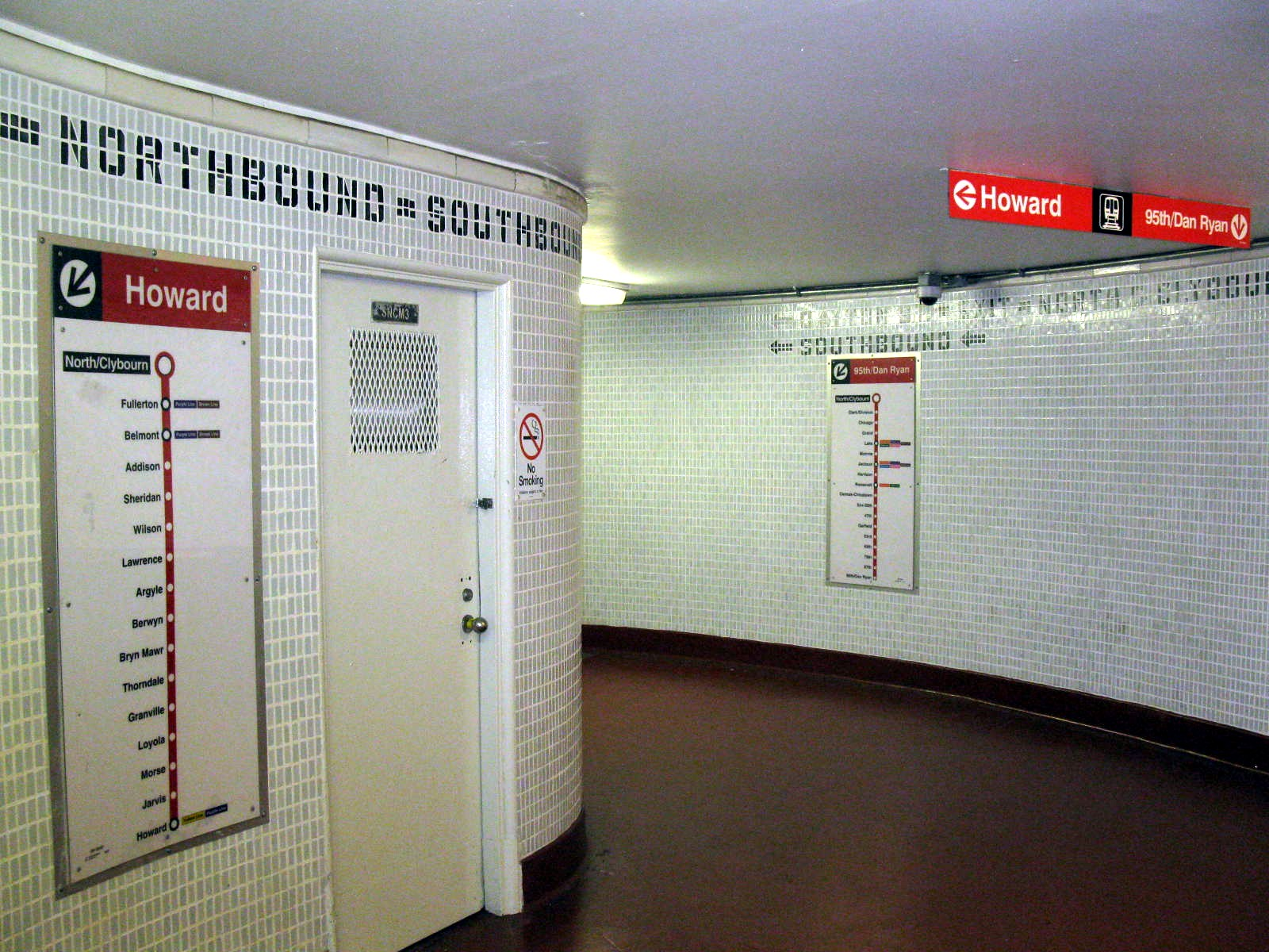 20101129 03 CTA Red Line @ North & Clybourn